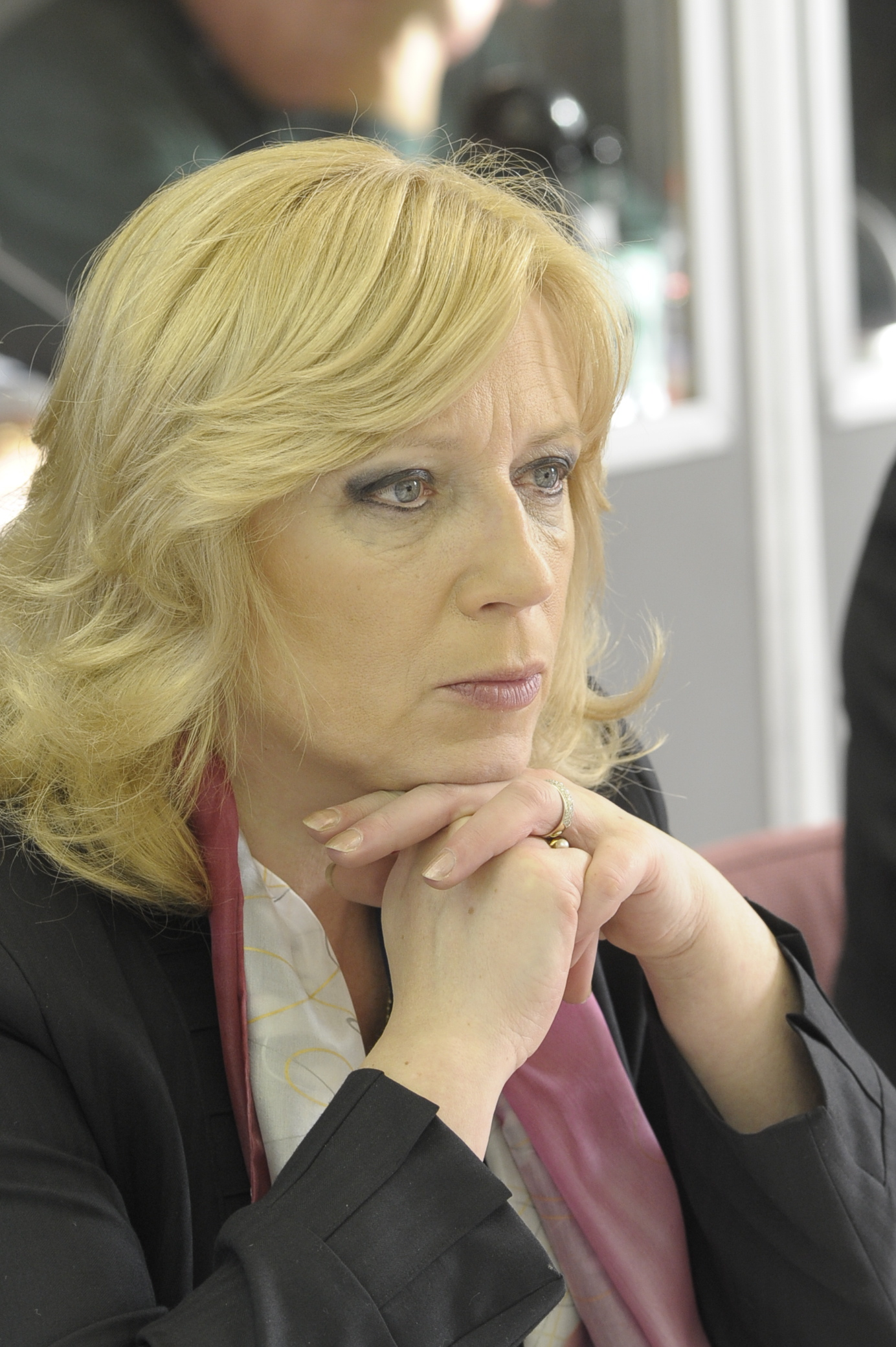 Iveta Radičová during EPP Summit in October 2010